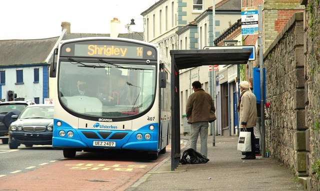 Ulsterbus bus 407 (reg. UEZ 2407) in Downpatrick.